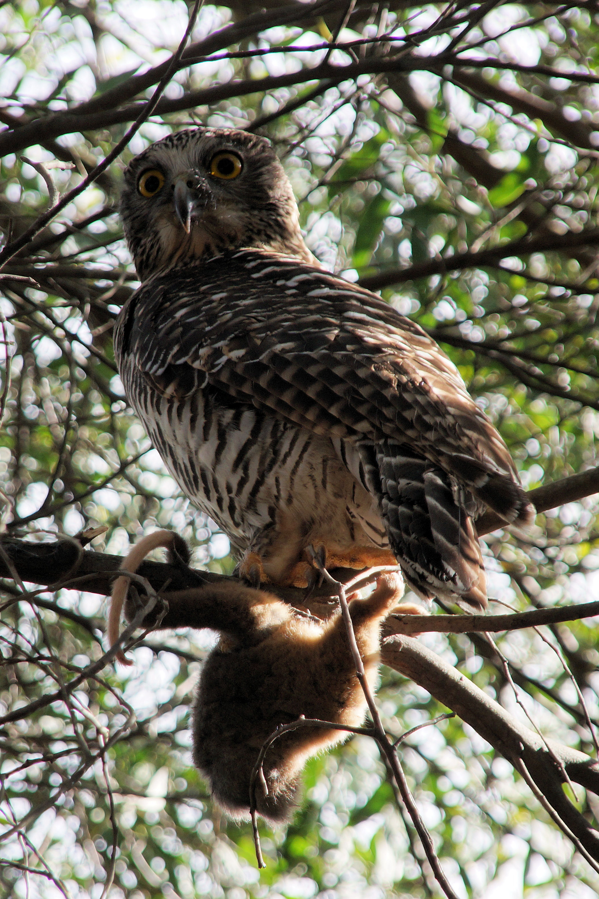 Powerful Owl (Ninox strenua) holding prey near North Head, Sydney Harbour NP, Australia